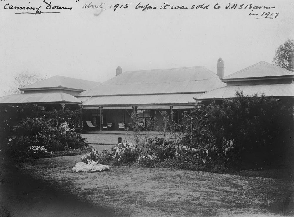 Canning Downs station homestead and gardens, Warwick district, 1914 Canning Downs station homestead during the ownership of F. H. Needham. (Description supplied with photograph). Inscription at top of photograph reads: Canning Downs about 1915 before it was sold to T. H. S. Barnes in 1917. Inscription on back of photograph reads: A remembrance to Mr. and Mrs. Moston from the Needhams of Canning Downs, Easter 1914.